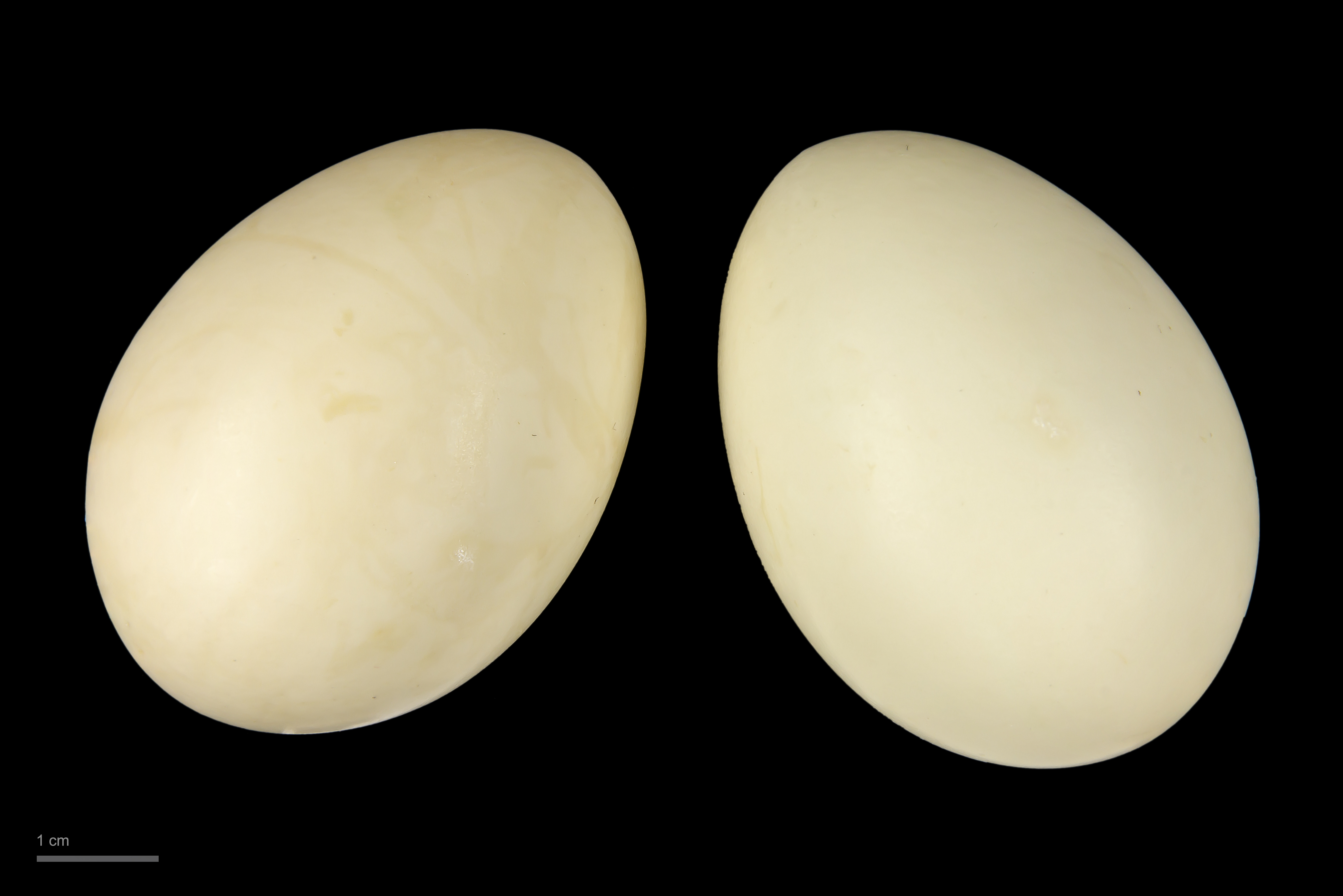 Egg of northern shoveler Collection of Jacques Perrin de Brichambaut.